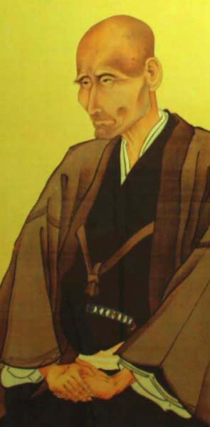 Portrait of Takano Choei at the Takano Choei Memorial Hall in Mizusawa Ward, Oshu City Japan.